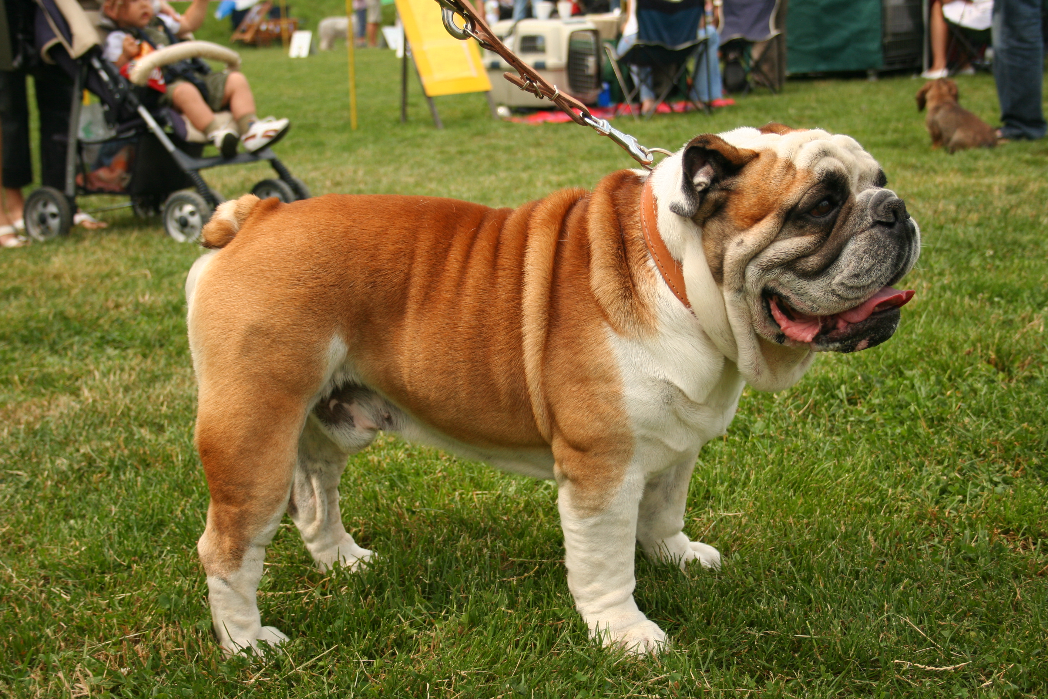 English Bulldog in Racibórz, Poland